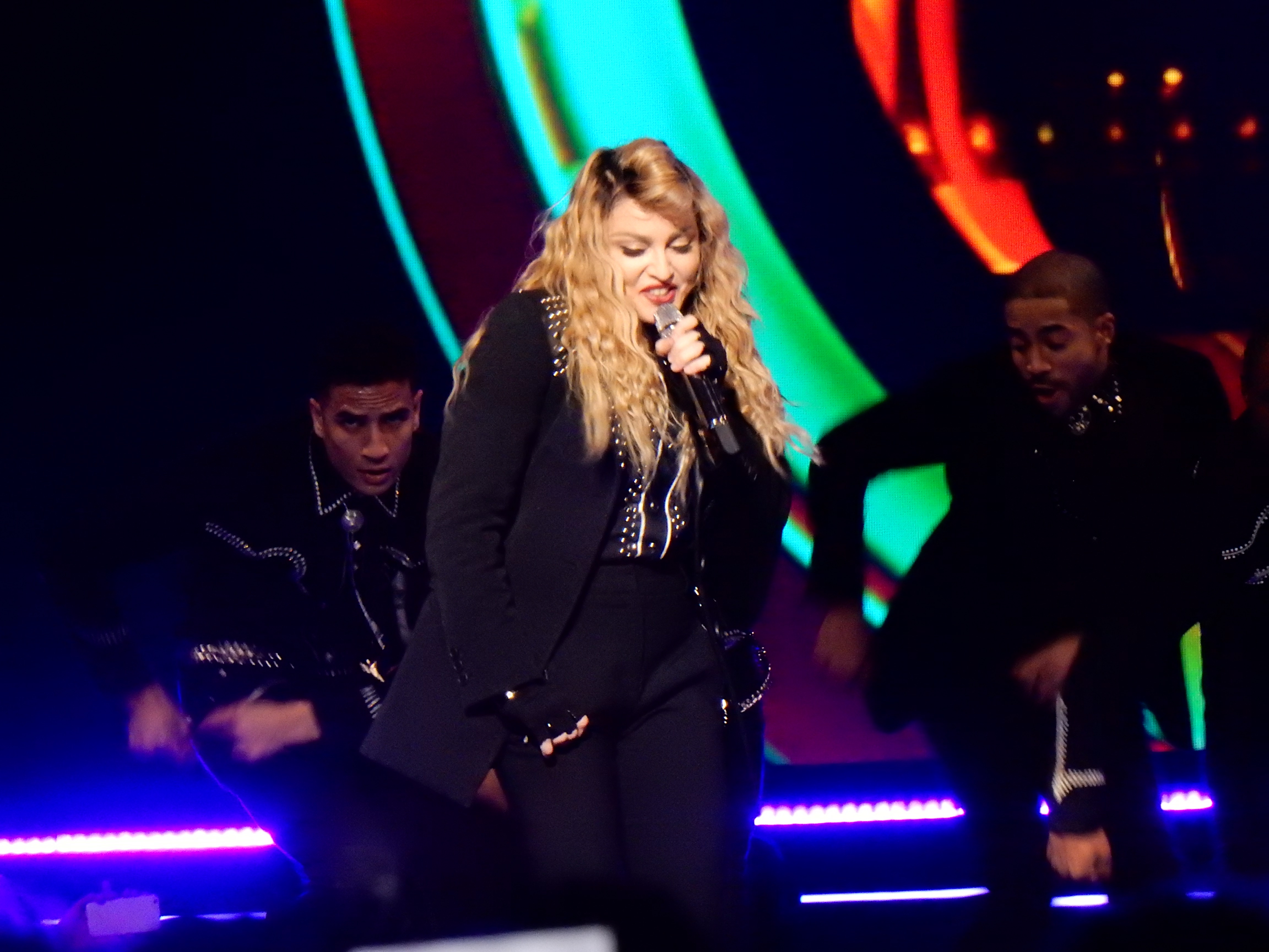 Madonna - Rebel Heart Tour 2015 - Paris 2